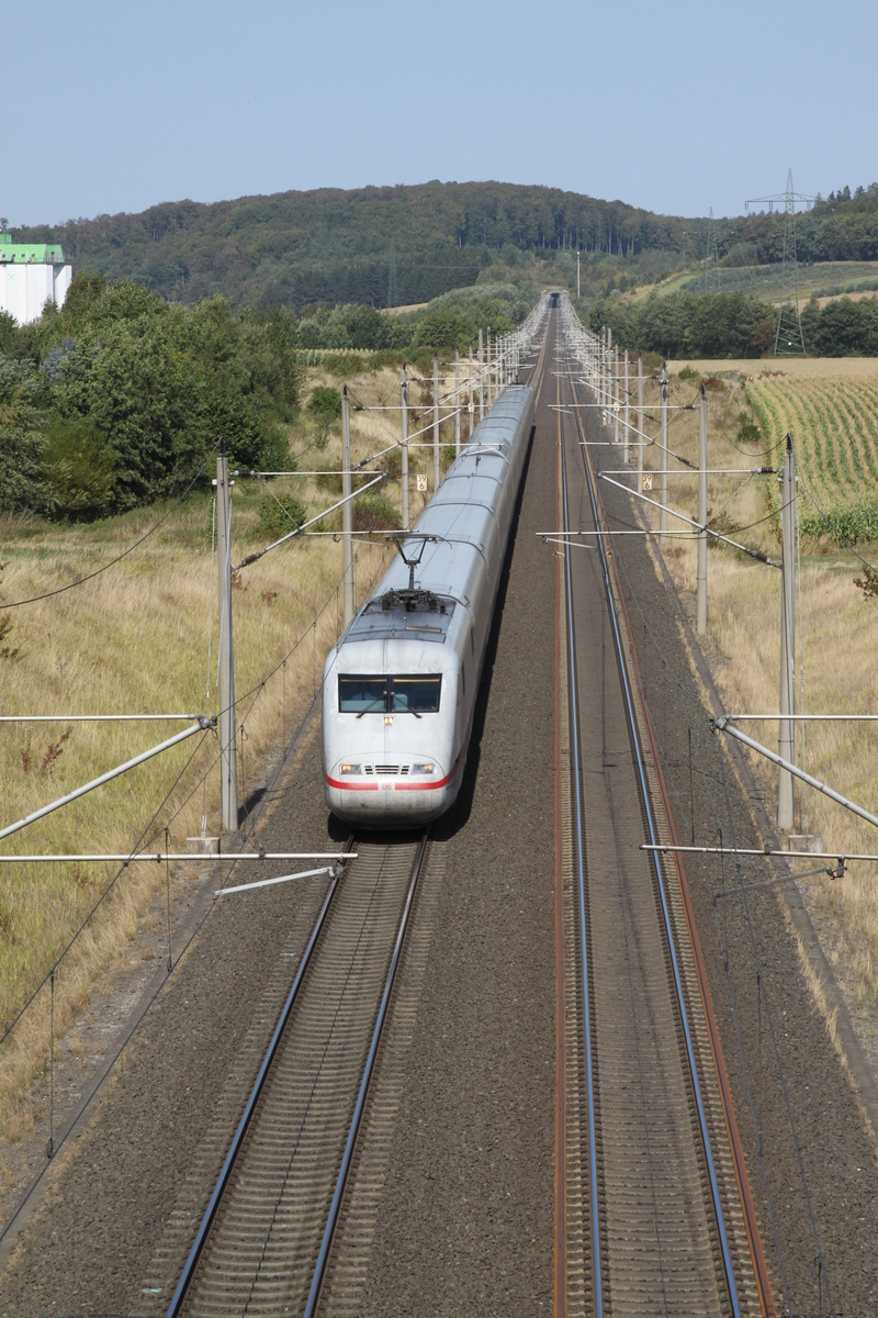 An ICE 1 high-speed train headed south on the Hannover-Wurzburg high-speed railway line, after passing through Eggeberg Tunnel (in the back).